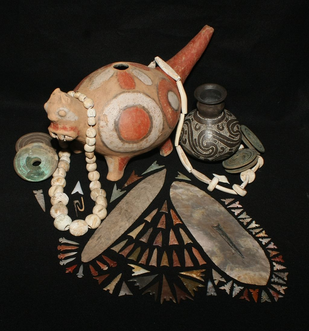 Various artifacts from MONAH collection